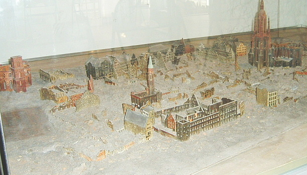 Destruction of the Frankfurt Altstadt in 1944 after a bomb-attack (1100 dead), on the left the Paulskirche, on the right the Dom, middle: the backside of the Römer. The picture is from a modell in the Historische Museum in Frankfurt.